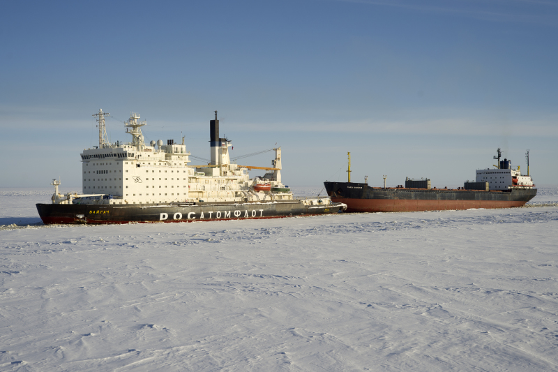 Nuclear-powered icebreaker Vaygach escorting Pavel Vavilov (IMO 8131893) from the port of Sabetta